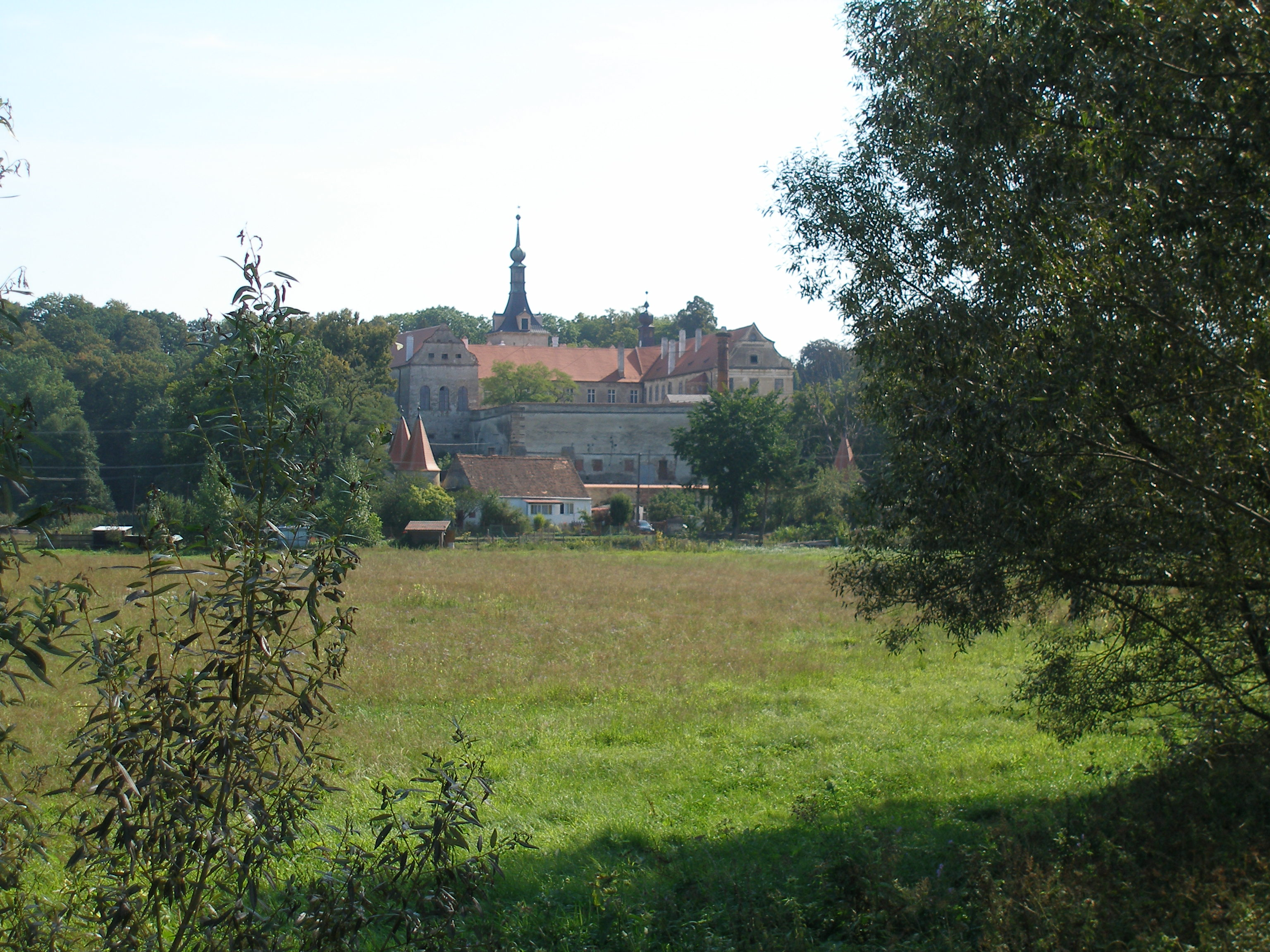 Western view of the castle in Uherčice (Znojmo district)